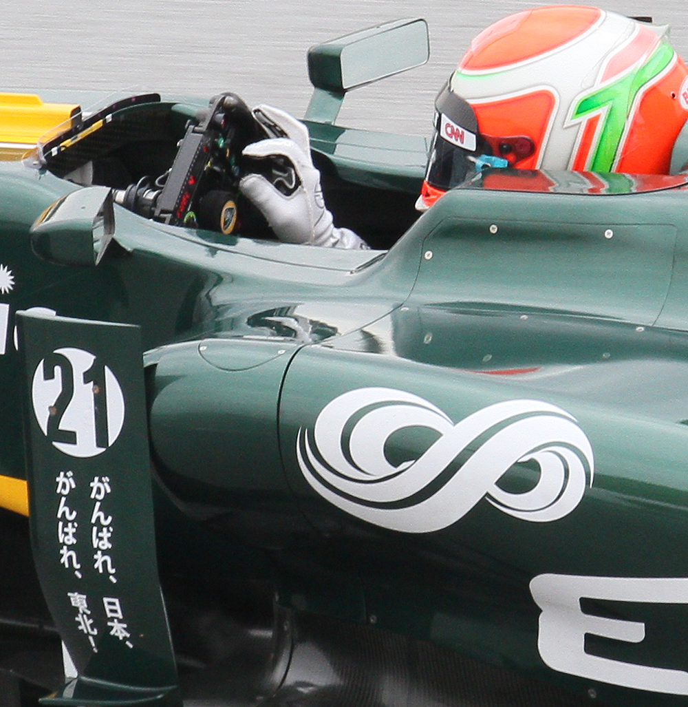 Formula One 2011 Rd.2 Malaysian GP: Jarno Trulli (Lotus) controls steering wheel during the first practice session on Friday.